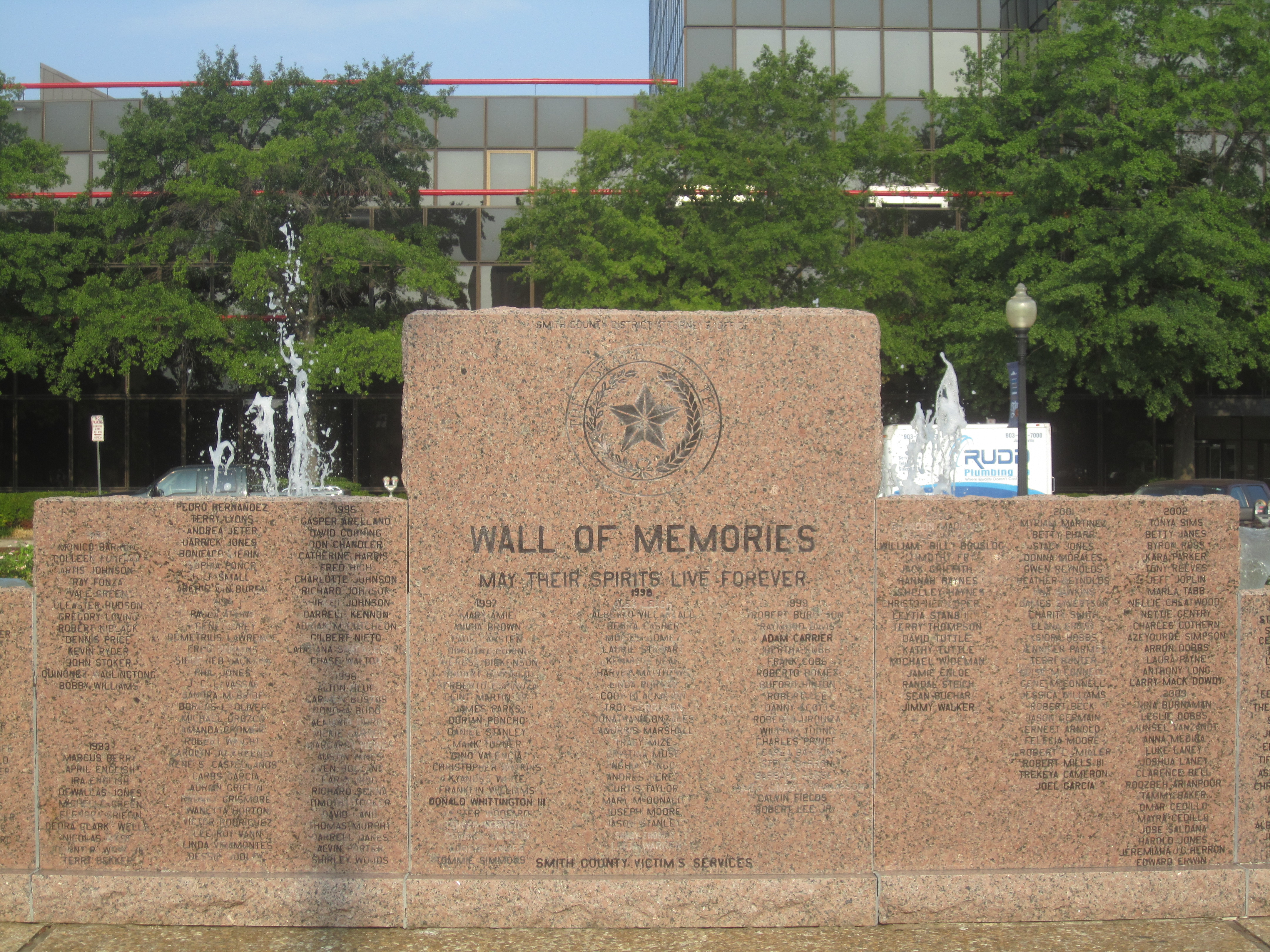 I took photo with Canon camera in Tyler, TX.